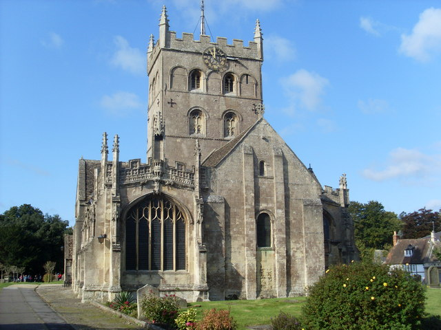 Church of St. John the Baptist Devizes Built as the garrison church of Devizes Castle in the 12th century, the ornate Beauchamp Chapel was added at the end of the 15th century.